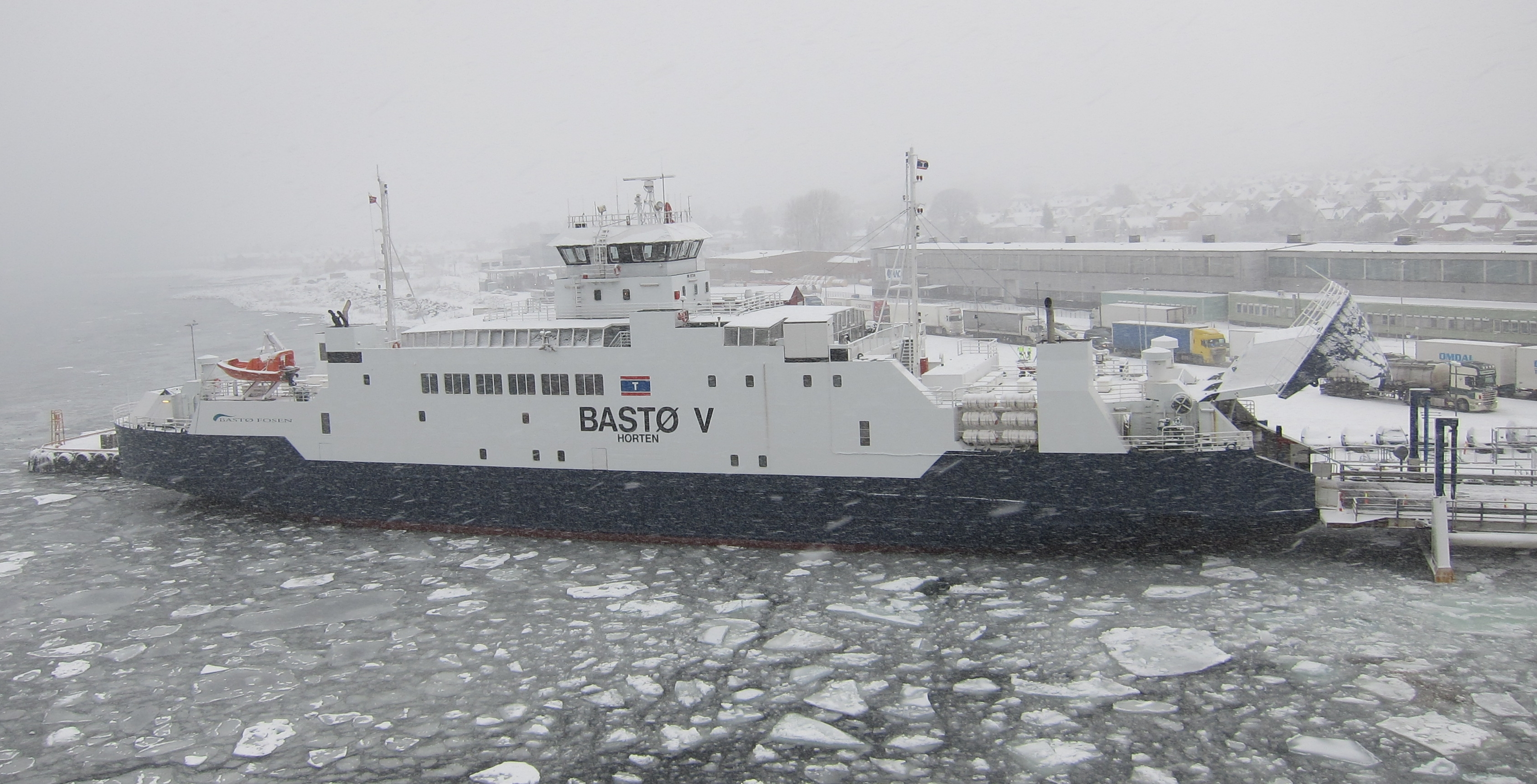 The Norwegian car and passenger ferry MF Bastø V in Horten, Norway, February 2013